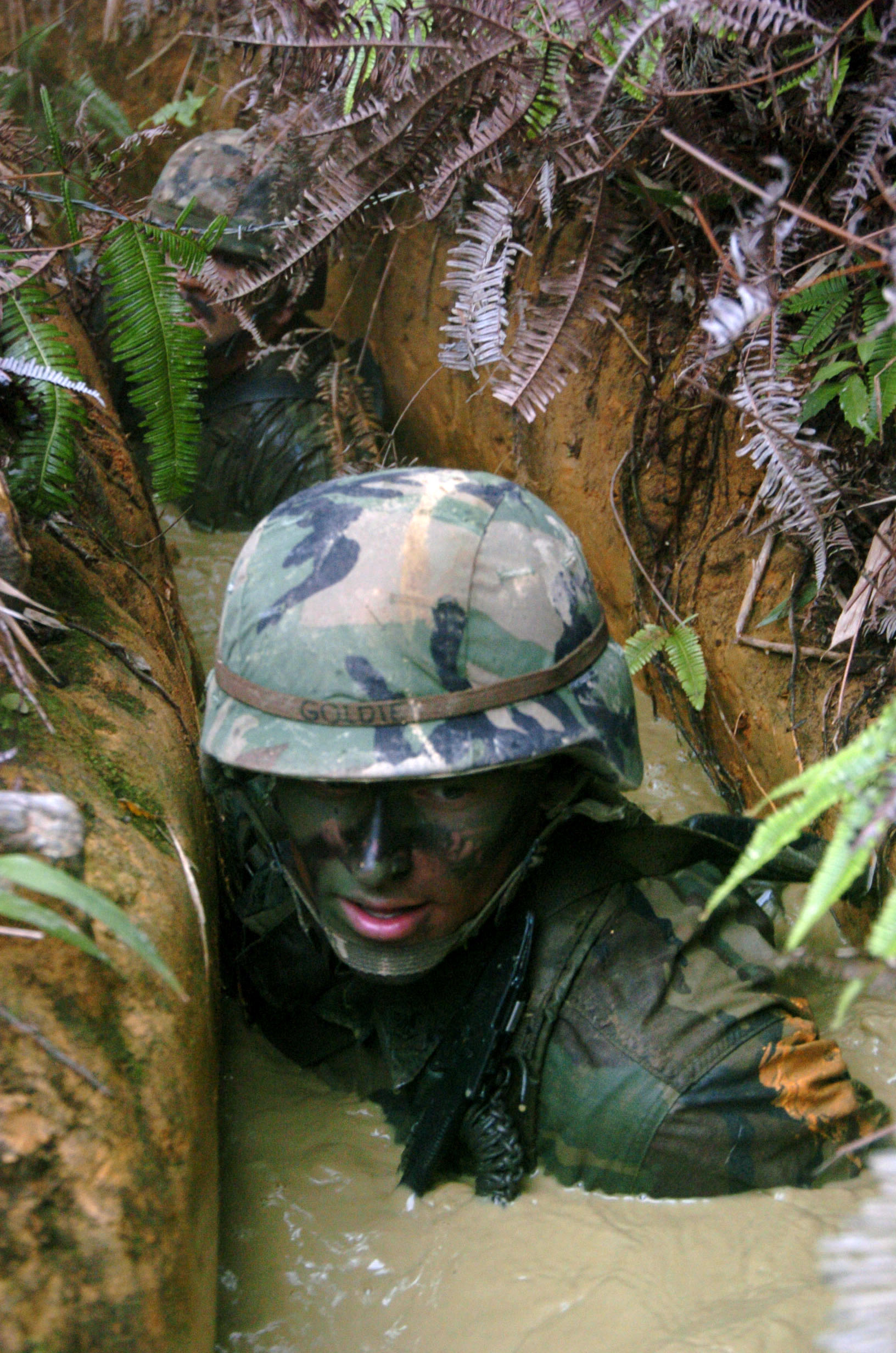 Okinawa, Japan (Feb. 25, 2005) – Builder 3rd Class Marcos Lopez, a Seabee assigned to Naval Mobile Construction Battalion Four Zero (NMCB-40), low-crawls through a trench during the endurance course at the Jungle Warfare Training Center on board Camp Gonslaves, Okinawa. The endurance course is a 3.4-mile obstacle course, which is part of a weeklong jungle skill training class. U.S. Navy photo by Photographer's Mate 3rd Class John P. Curtis (RELEASED)